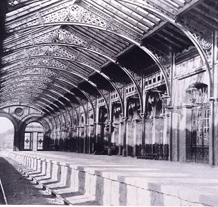 The interior of the old railway station in Lübeck, about 1900. There was only one track and one platform.